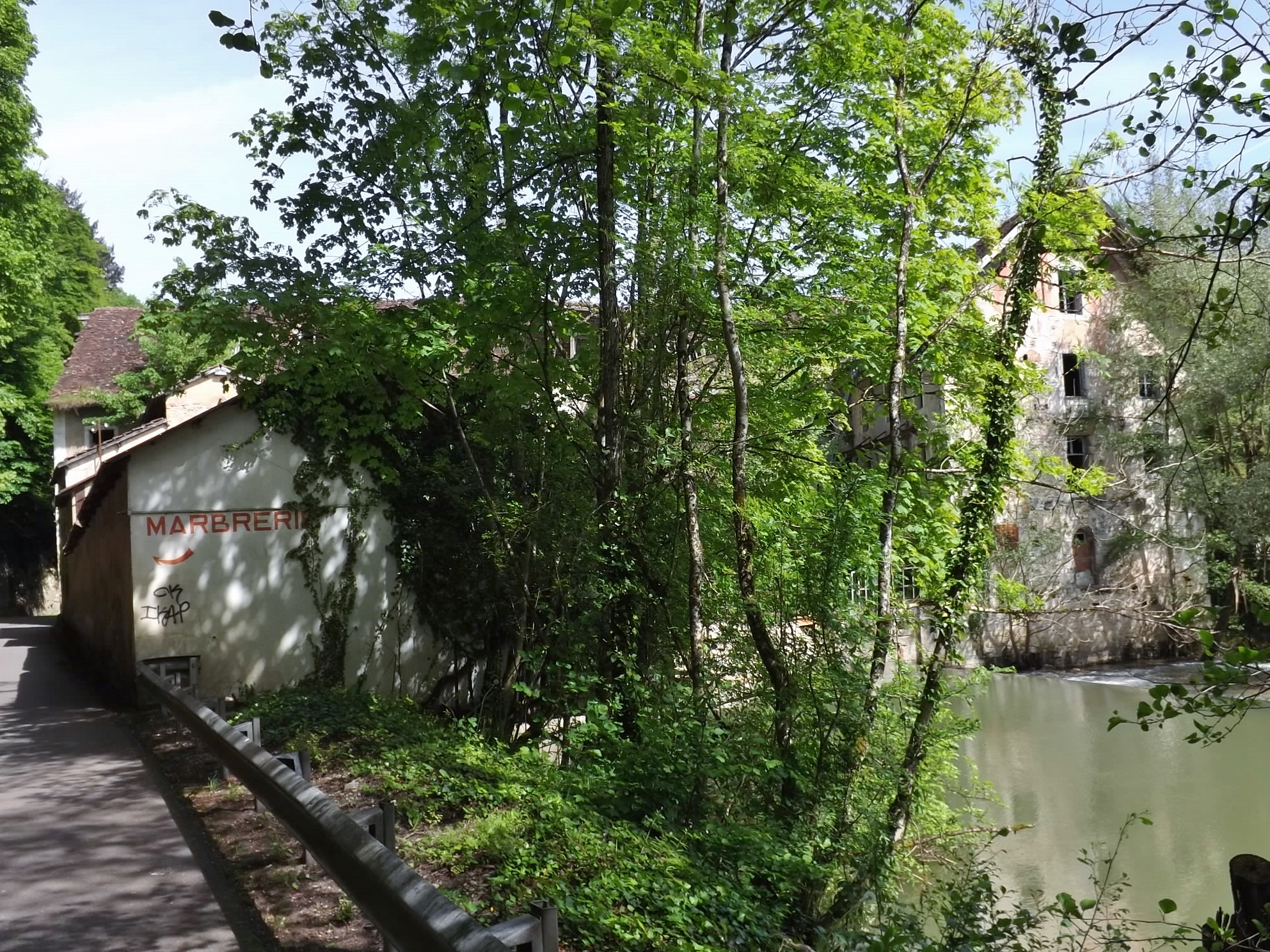 Sight of the ancient paper mills of Geneuille along the Ognon river, near Besançon in Doubs, France.